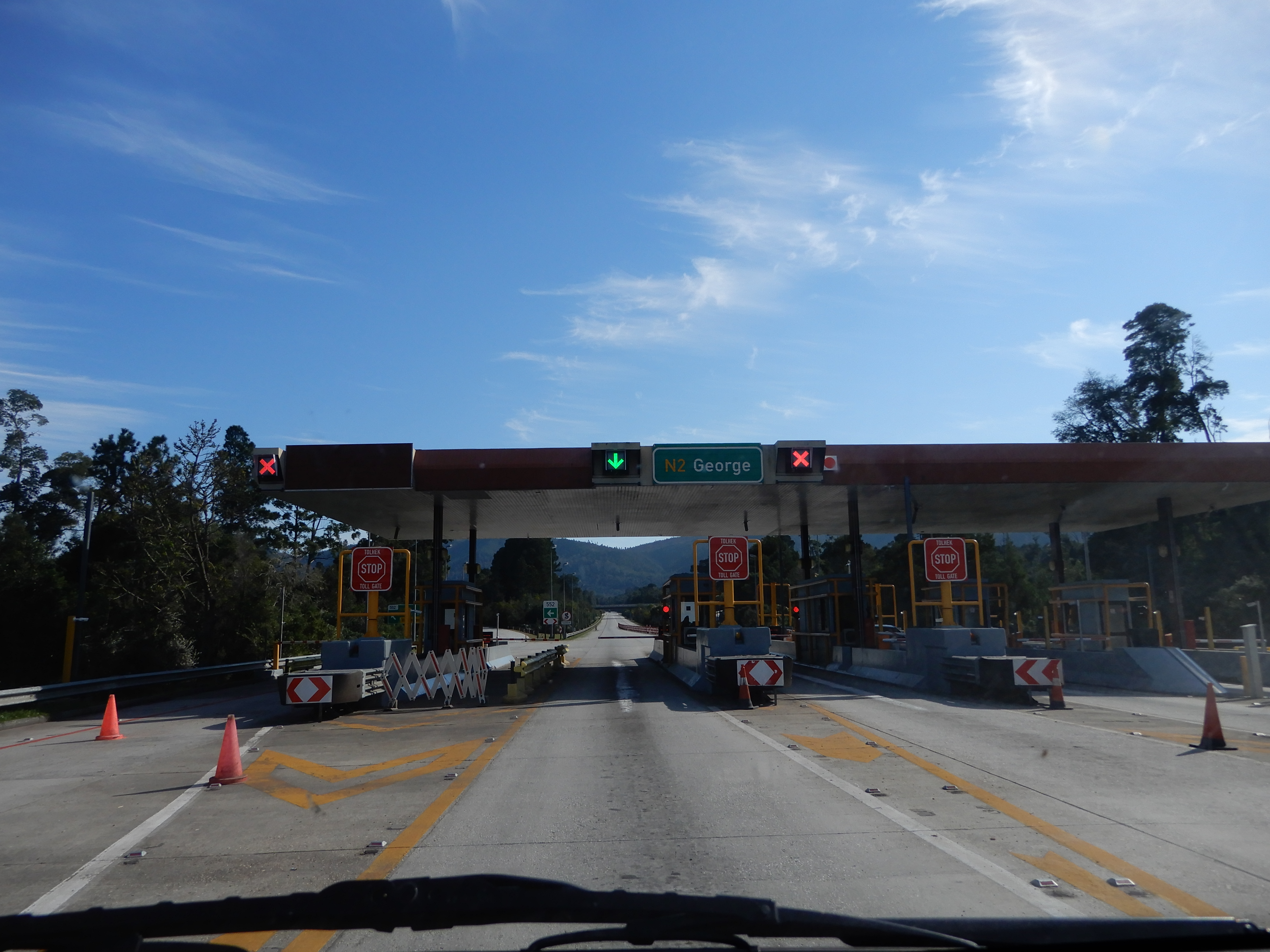 e-tag lane on the N2 by George.